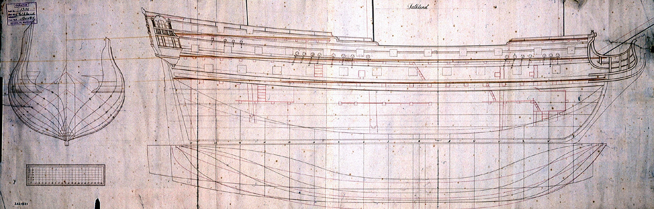 Falkland (1720) Scale: 1:48. Plan showing the body plan, sheer lines with inboard profile, and longitudinal half-breadth for Falkland (1720), a 1719 Establishment 50-gun Fourth Rate, two-decker. Ships plan Falkland 1720